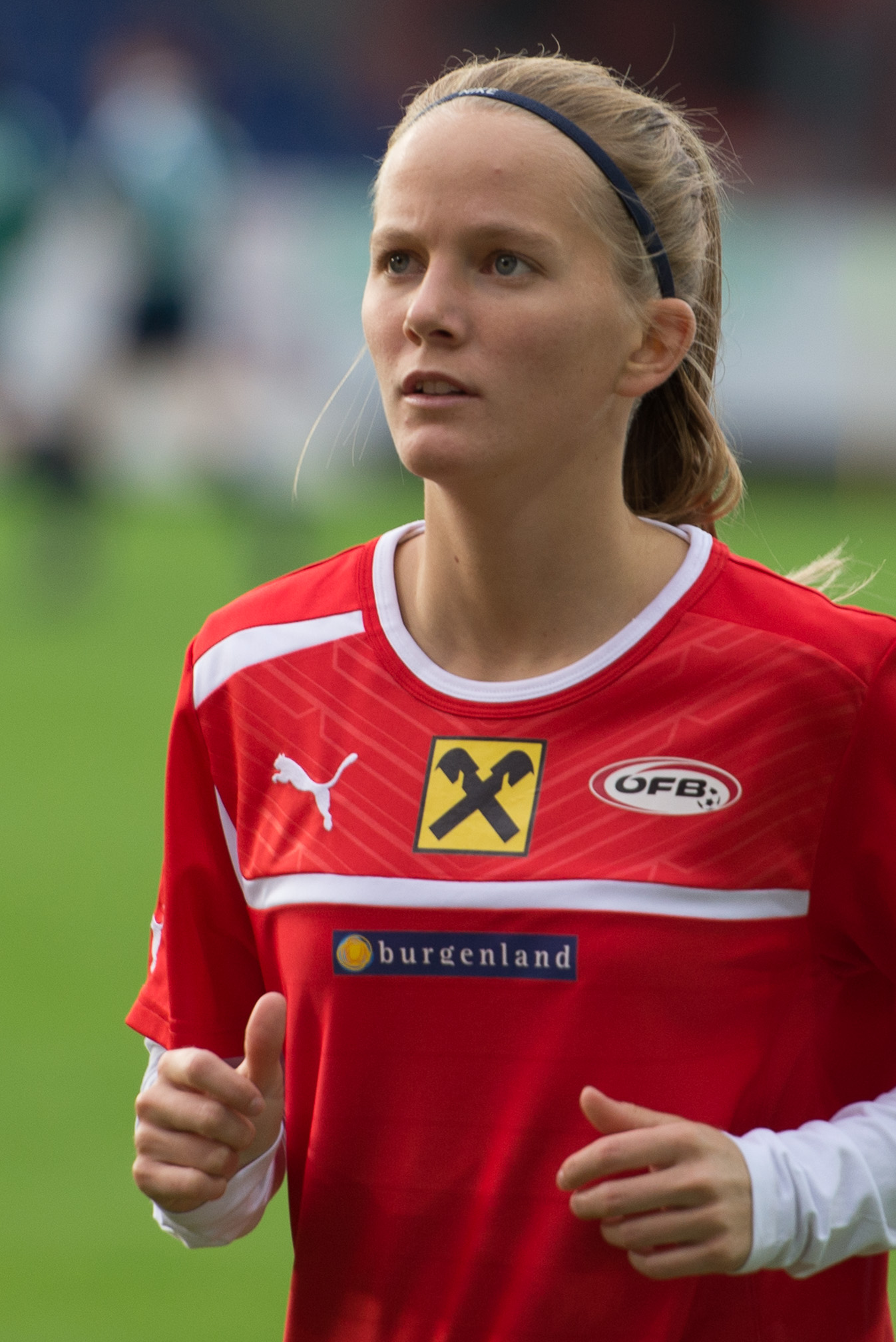 FIFA Women's World Cup 2015: Qualifying Round St. Pölten, 13.09.2014 Jennifer Pöltl